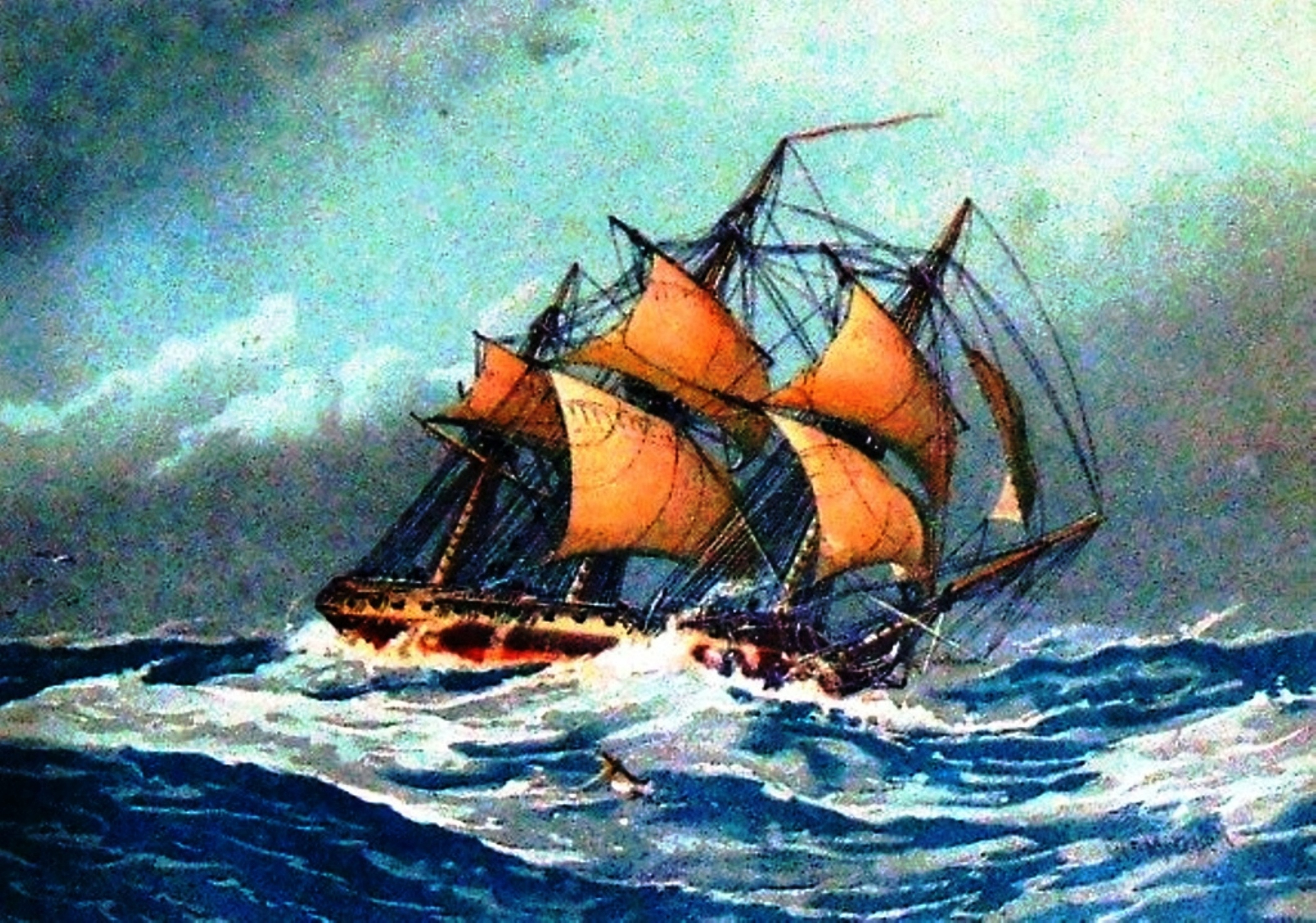 Draw of caravel in the heavy see.